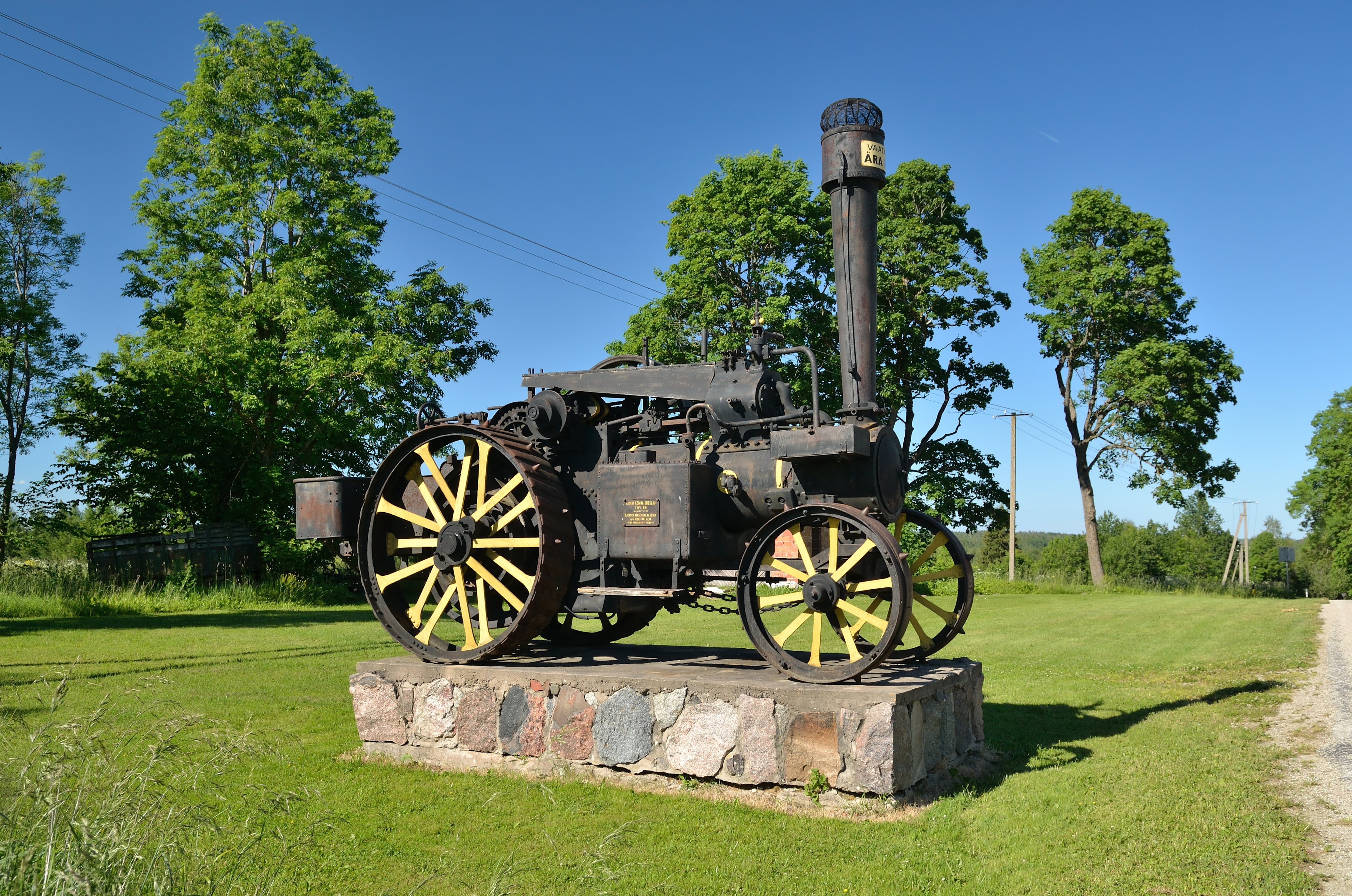 Kemna Breslau type EM vehicle